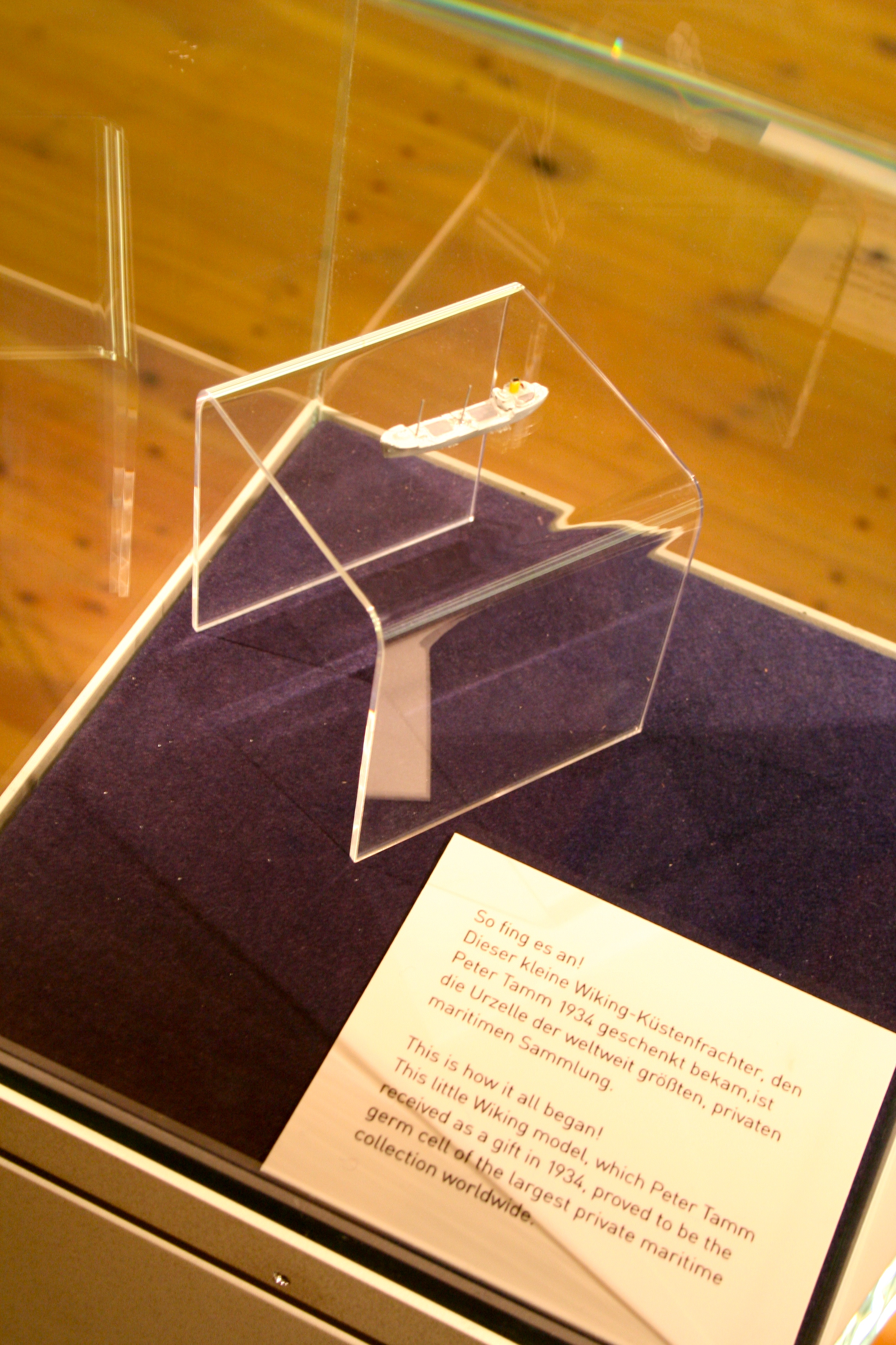 It is believed that this ship model was the first in the collection of Peter Tamm, who later opened this museum.